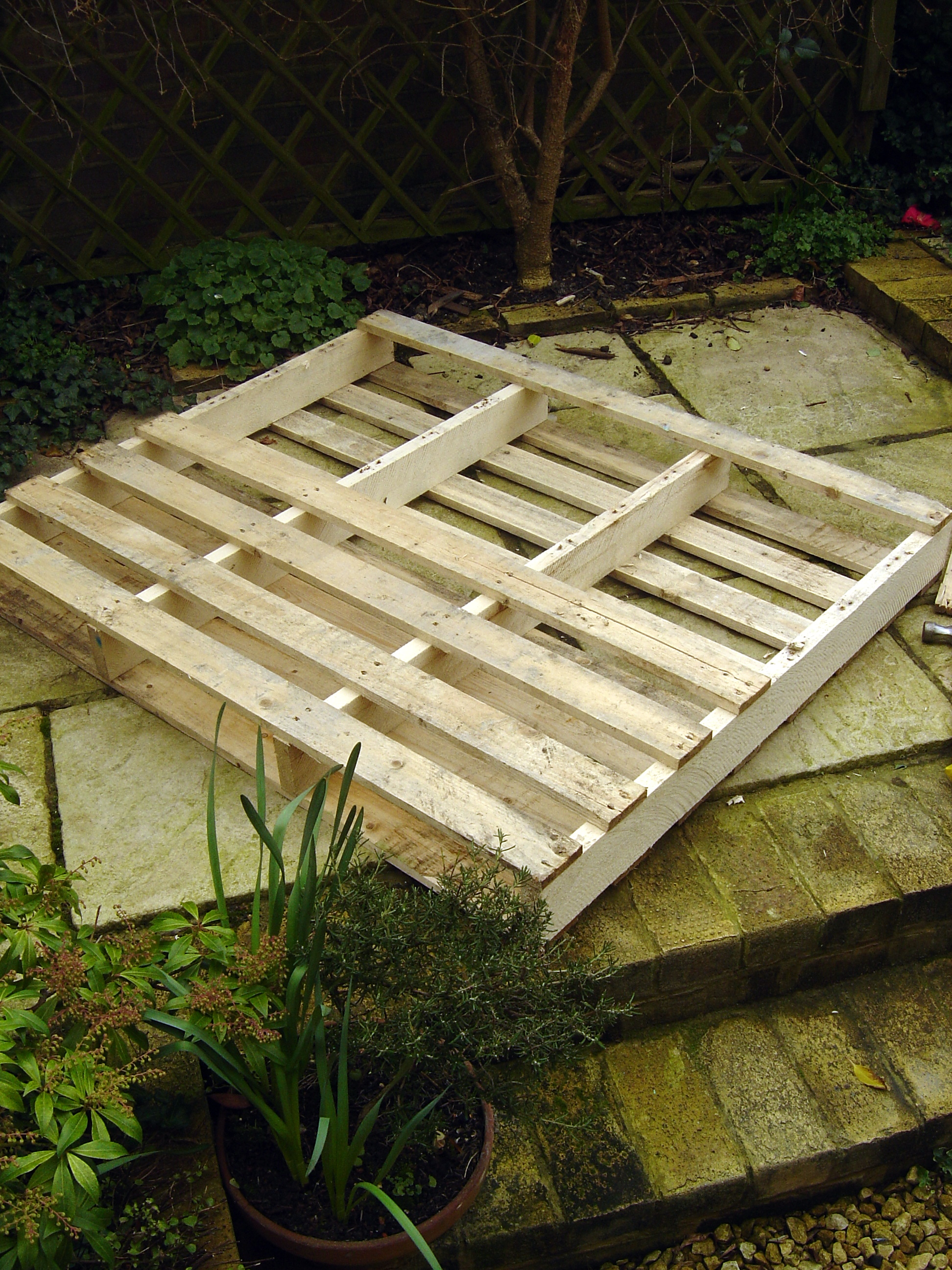 Urban Lumberjack